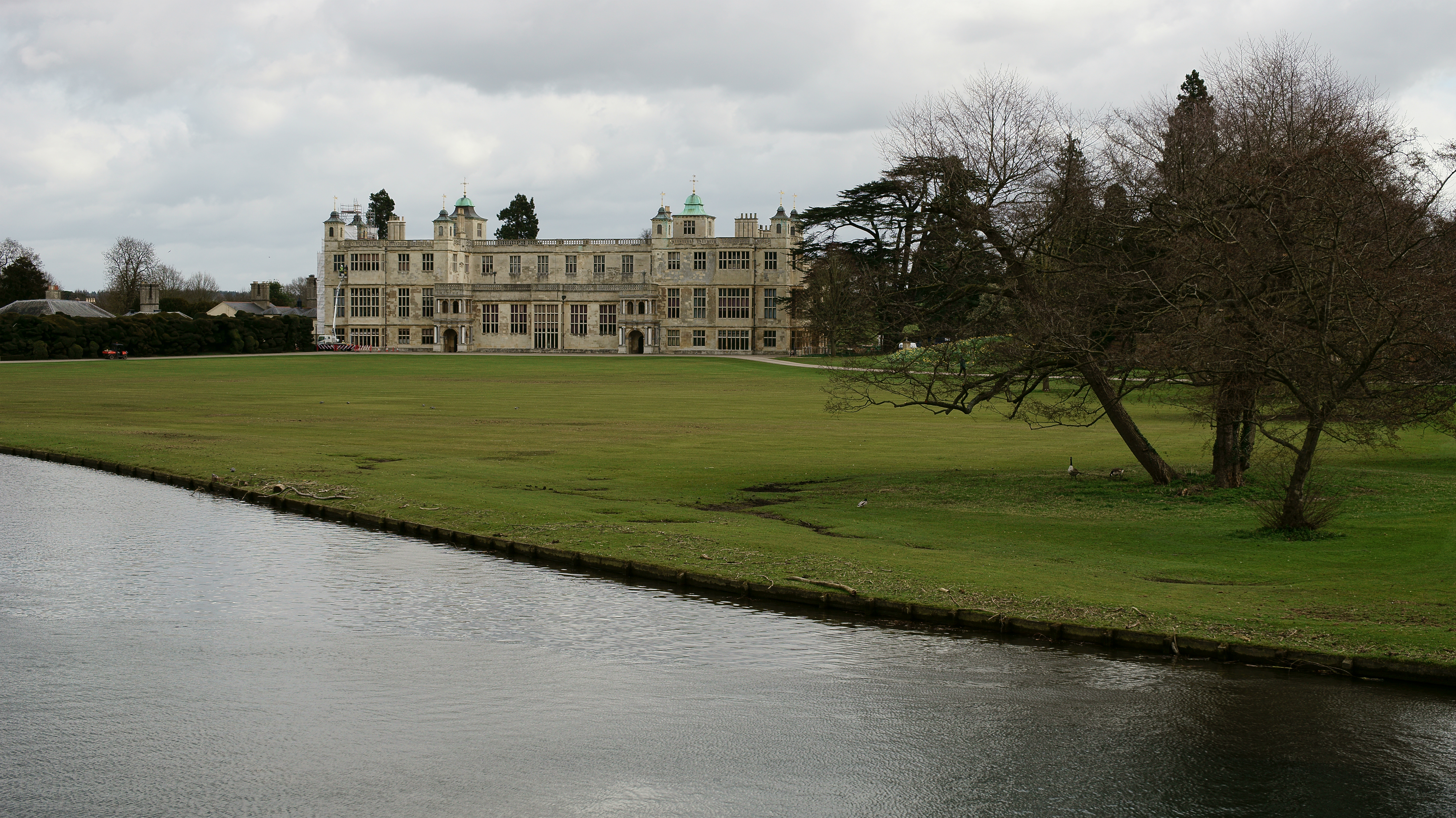 Audley End House